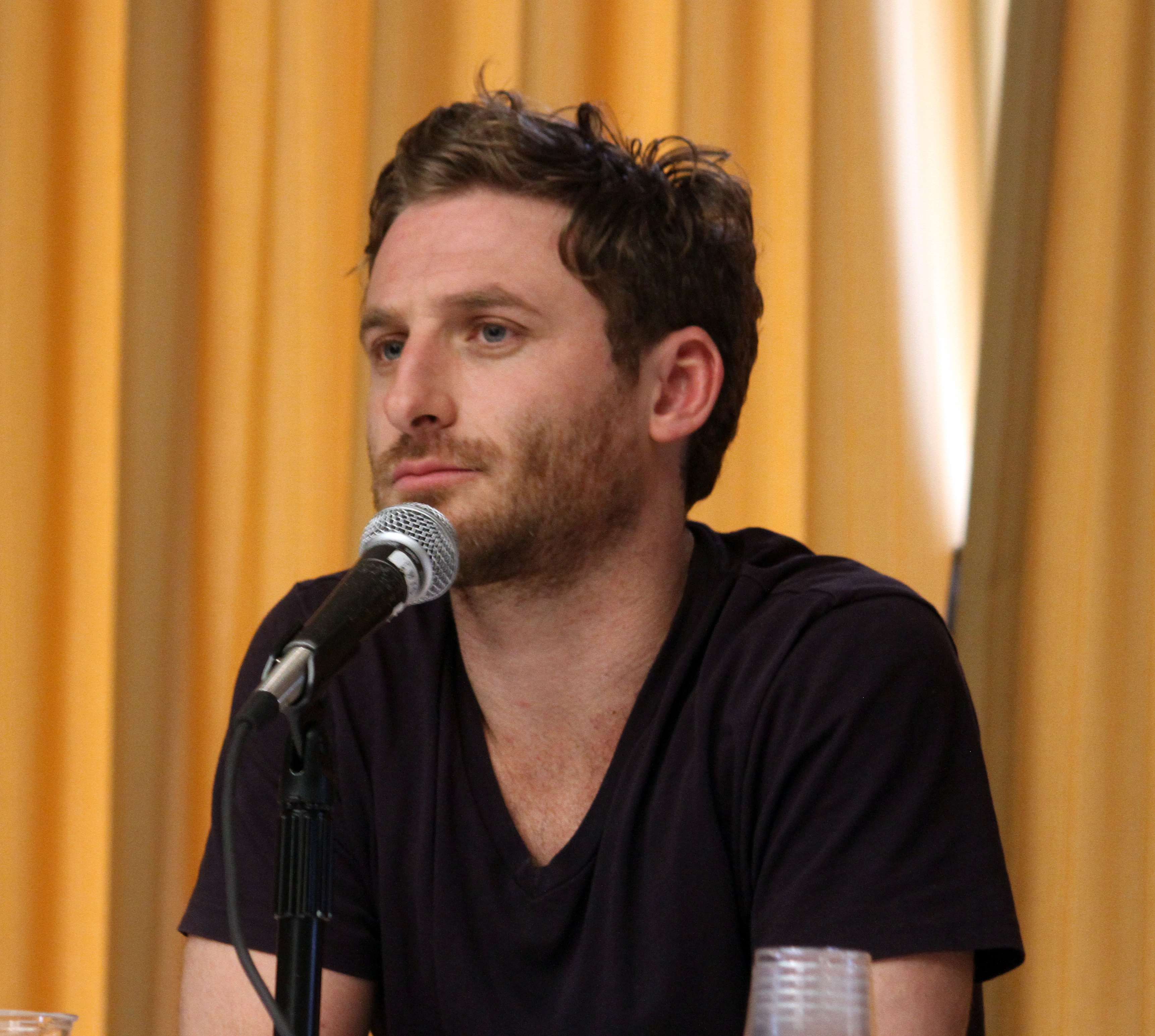 Dean O'Gorman during The Hobbit Q&A at Boston Comicon.